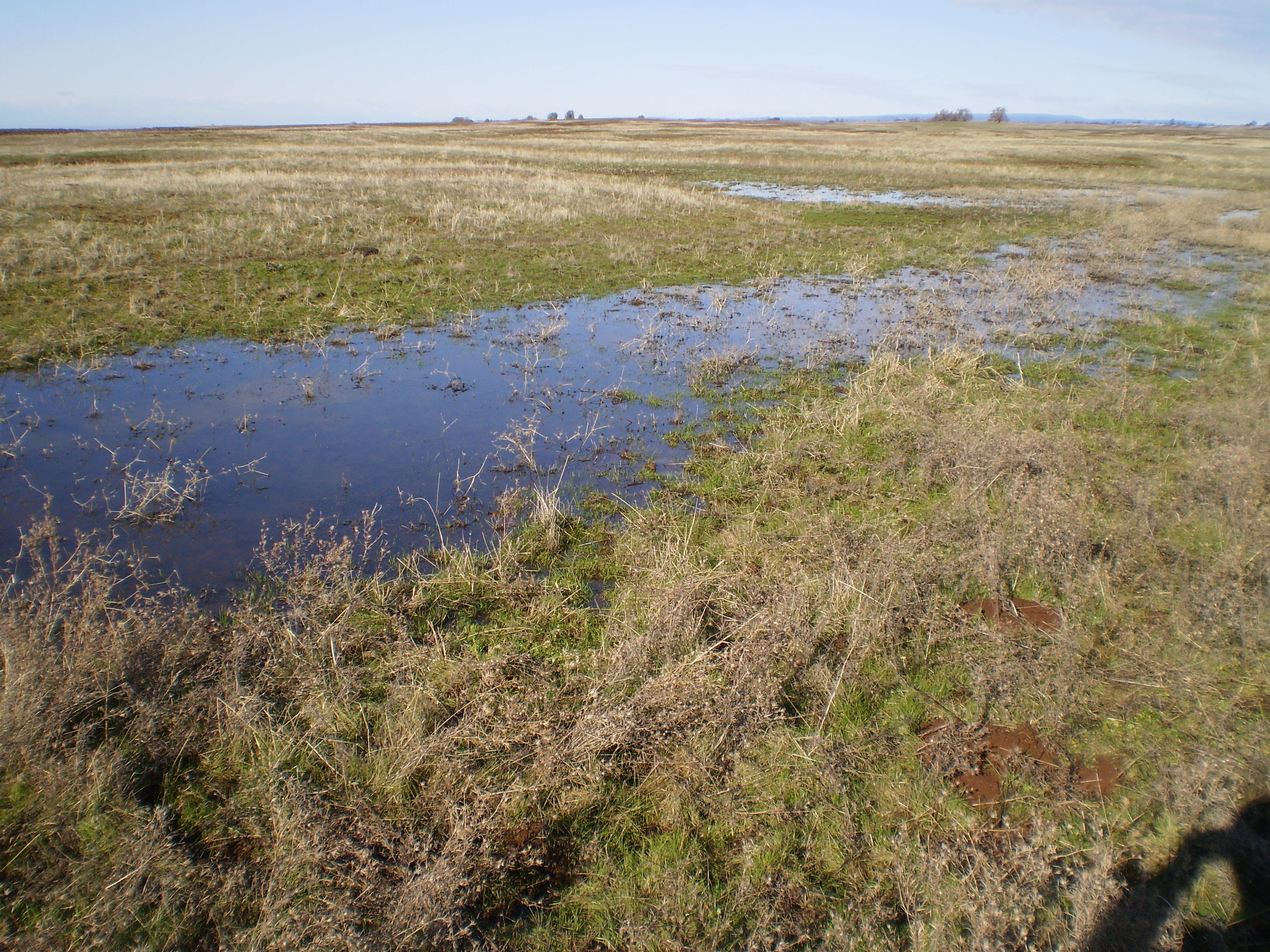 North Table Mountain Ecological Reserve, spring 2009